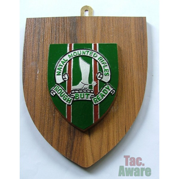 This is a photo of a plaque that I made. It represents the Natal Mounted Rifles Regimental badge